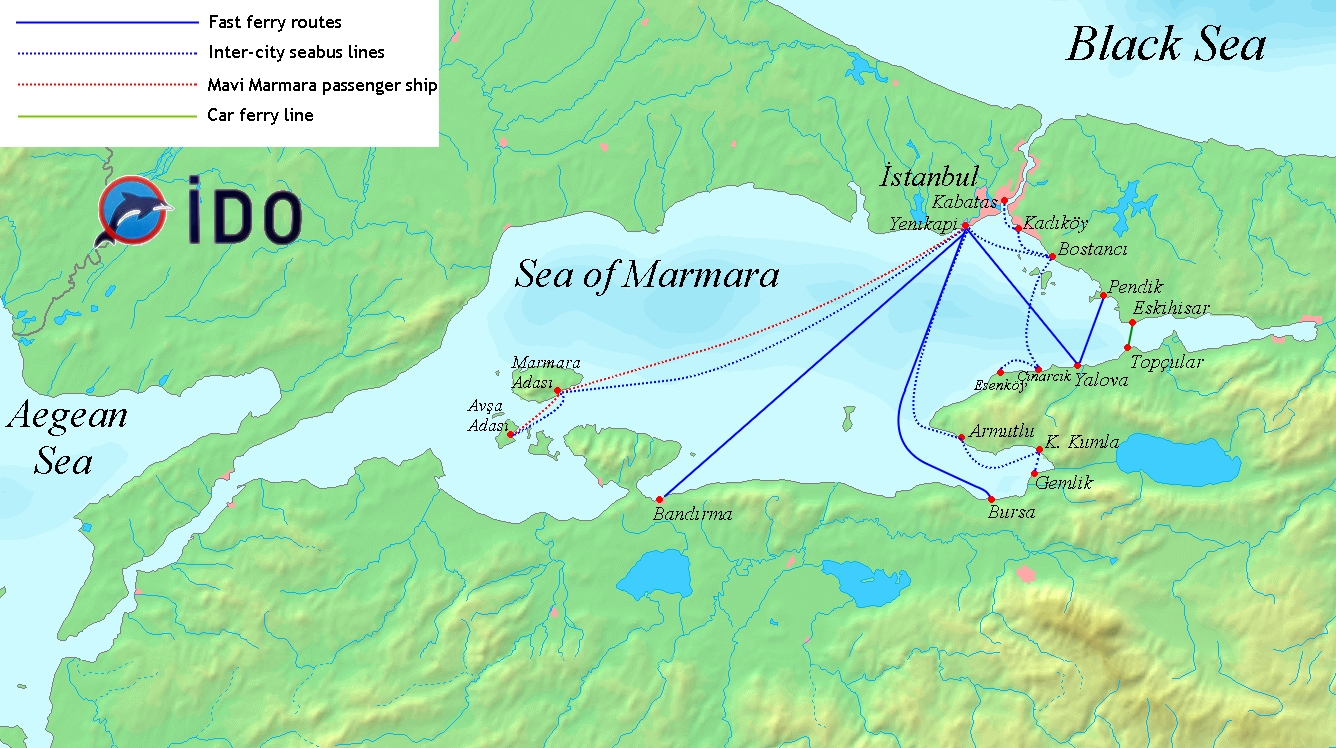 A map of the Sea of Marmara showing the ferry routes of IDO